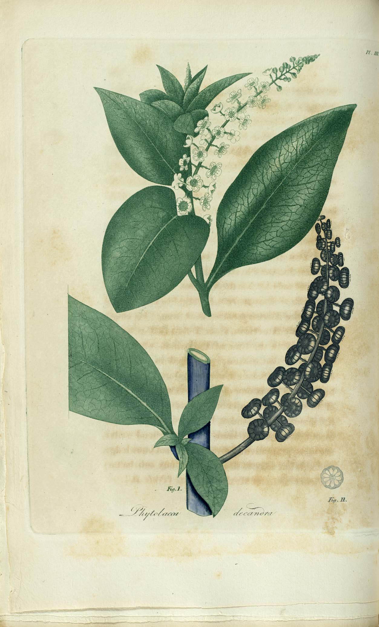 Plate III To view the entire book, please visit American Medical Botany.